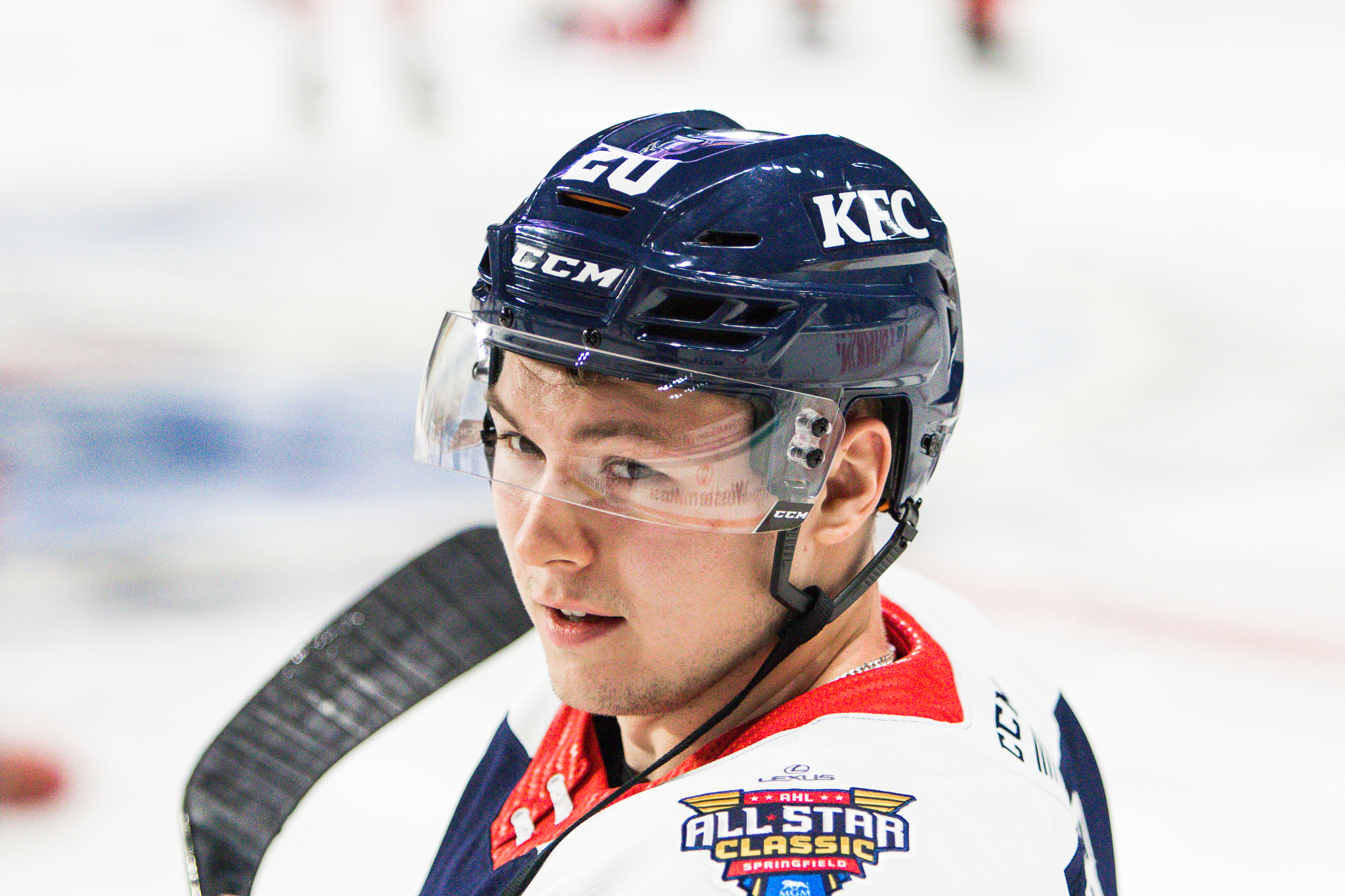 Photo By: Kelly Shea